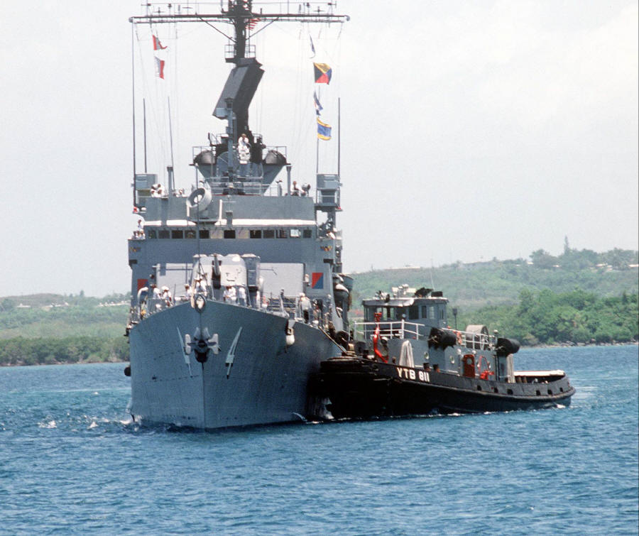 Houma (YTB-811) assists USS Talbot (DEG-4) into her berth at Naval Station, Roosevelt Roads, Puerto Rico, 14 June 1984. US Navy photo # DVID #DN-ST-90-01502 by PH2 Paul Erickson from the Defense Visual Information Center